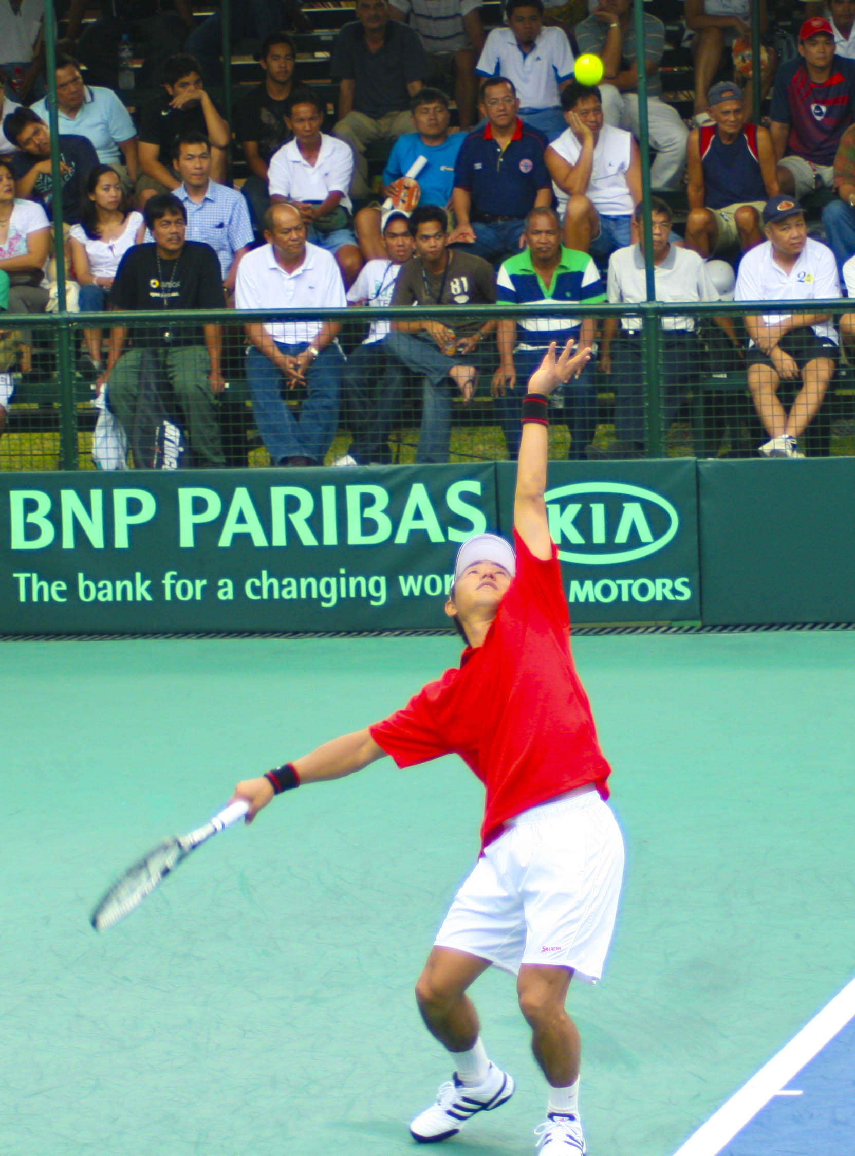 a tennis player from Japan,鈴木貴男（（Takao Suzuki）